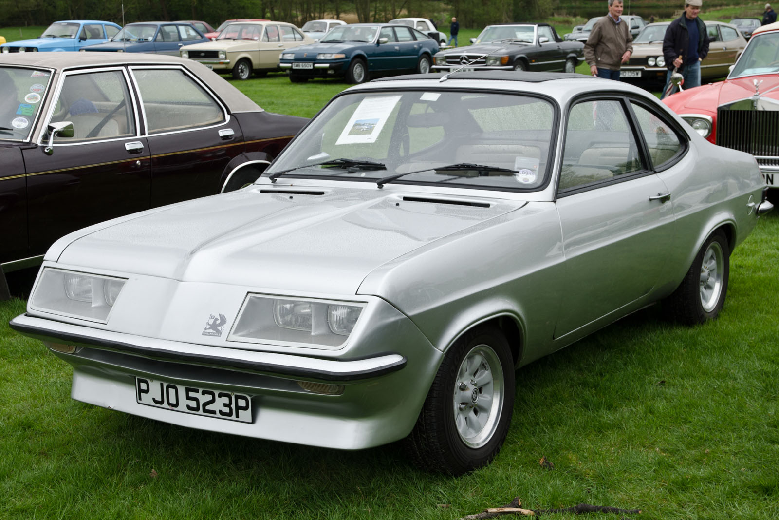 Vale Royal Classic Car Show at Arley Hall 12/05/2013